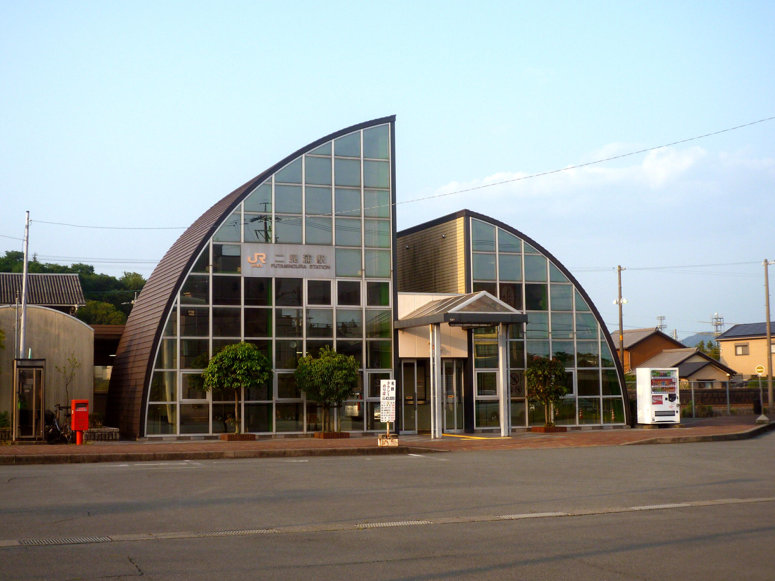 JR Central Sangū Line Futaminoura Station in Futamichō-Mitsu, Ise, Mie, Japan.